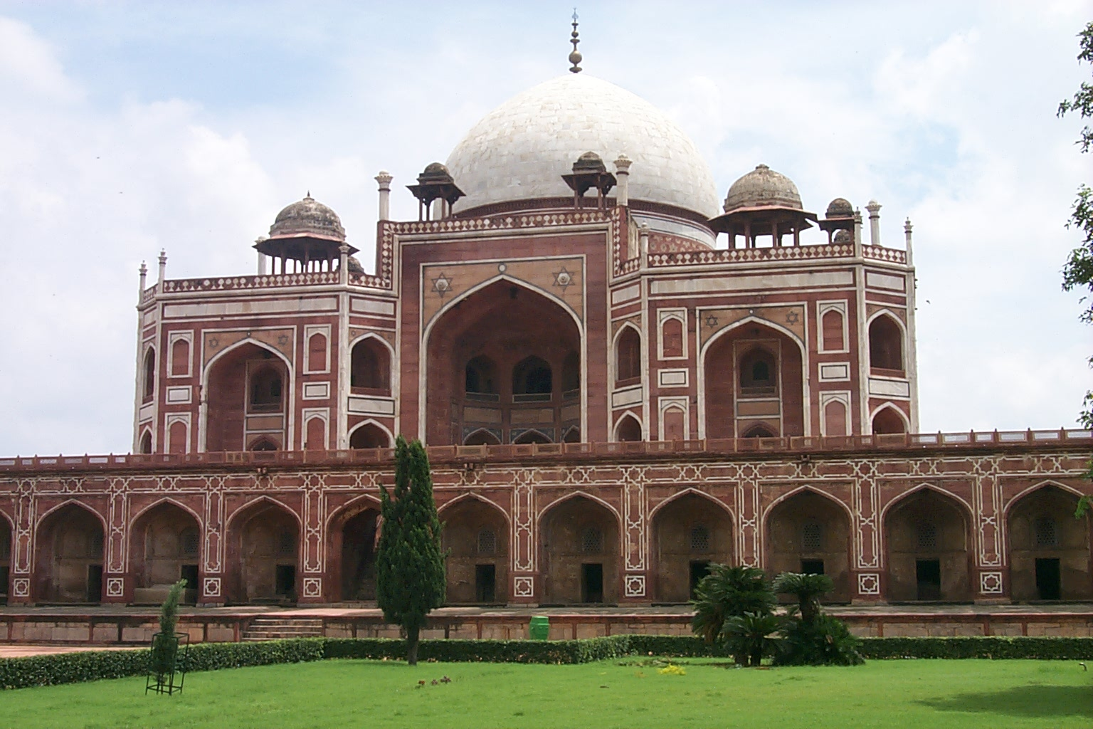 Humayun's Tomb, Delhi, India